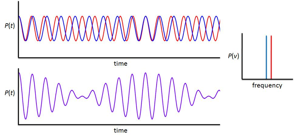 Addition of waves with slightly different wavelengths in the time domain. Also shows frequency domain equivalent